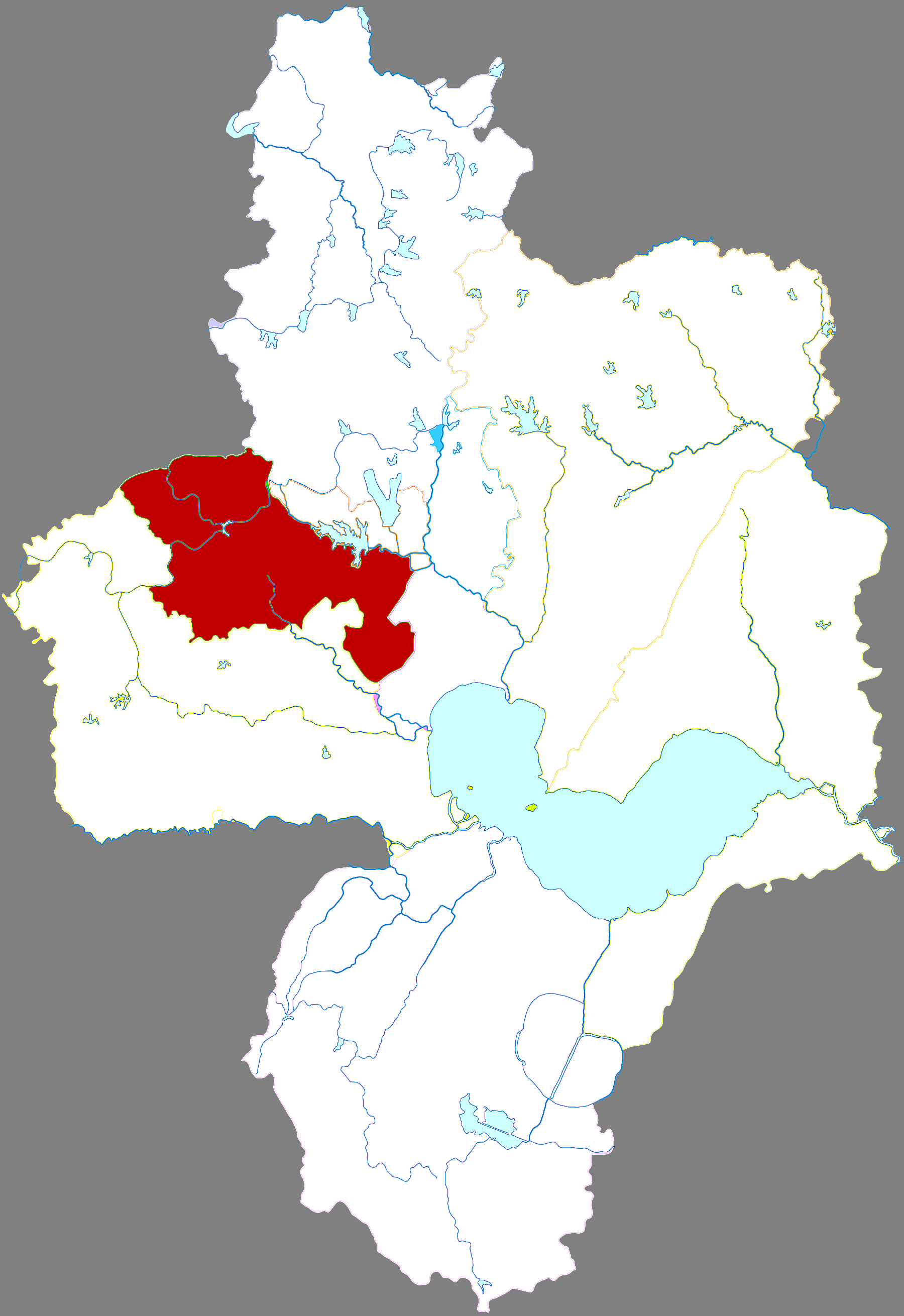 Location of Shushan district in Hefei city, China